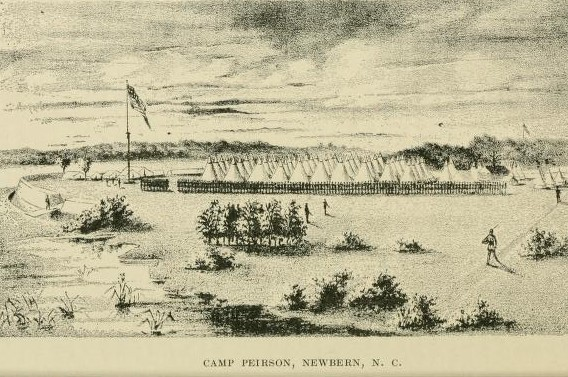 The 5th Regiment Massachusetts Volunteer Infantry at Camp Peirson, New Bern, North Carolina, 1863